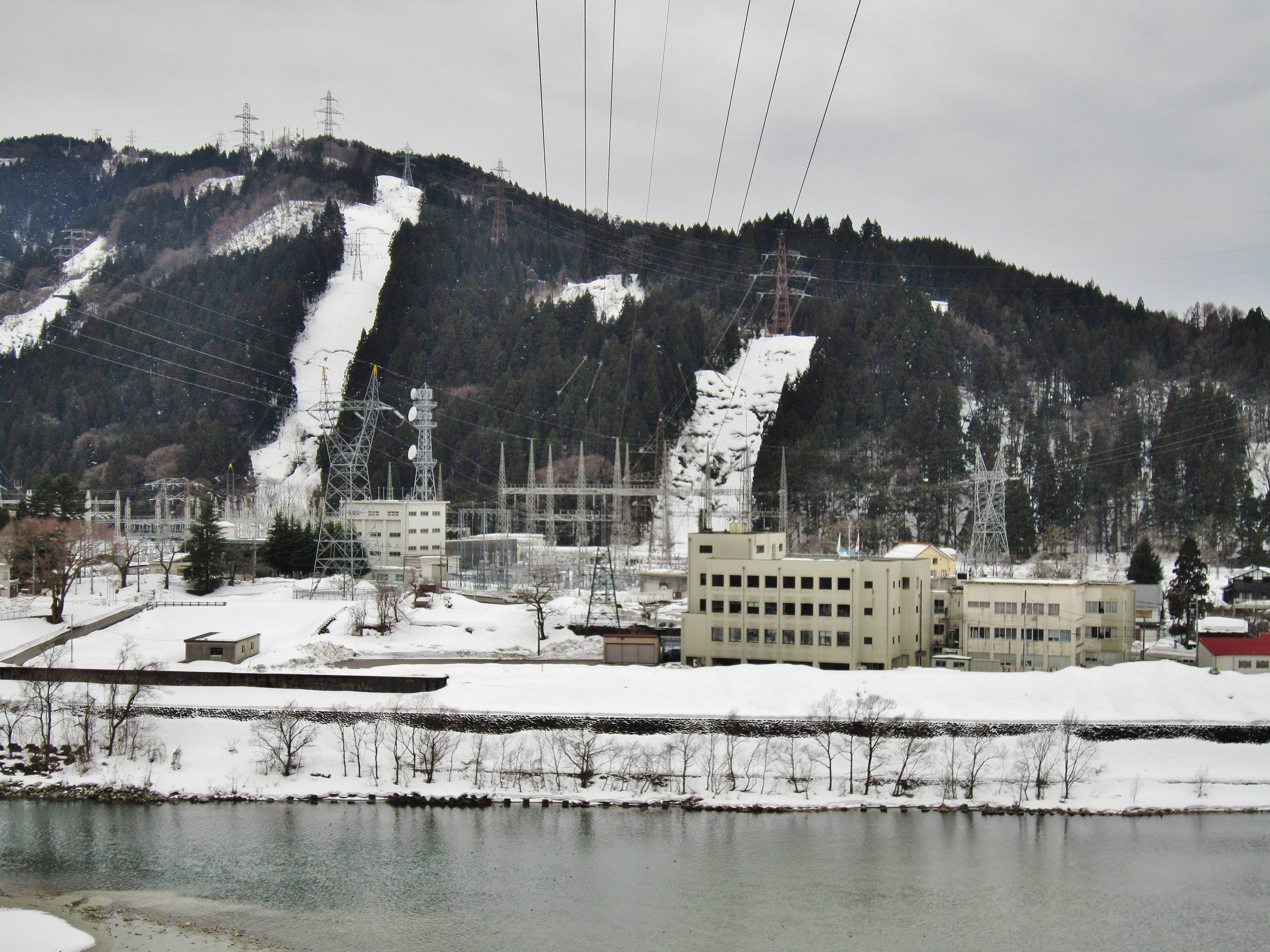 Shin'aimoto substation.